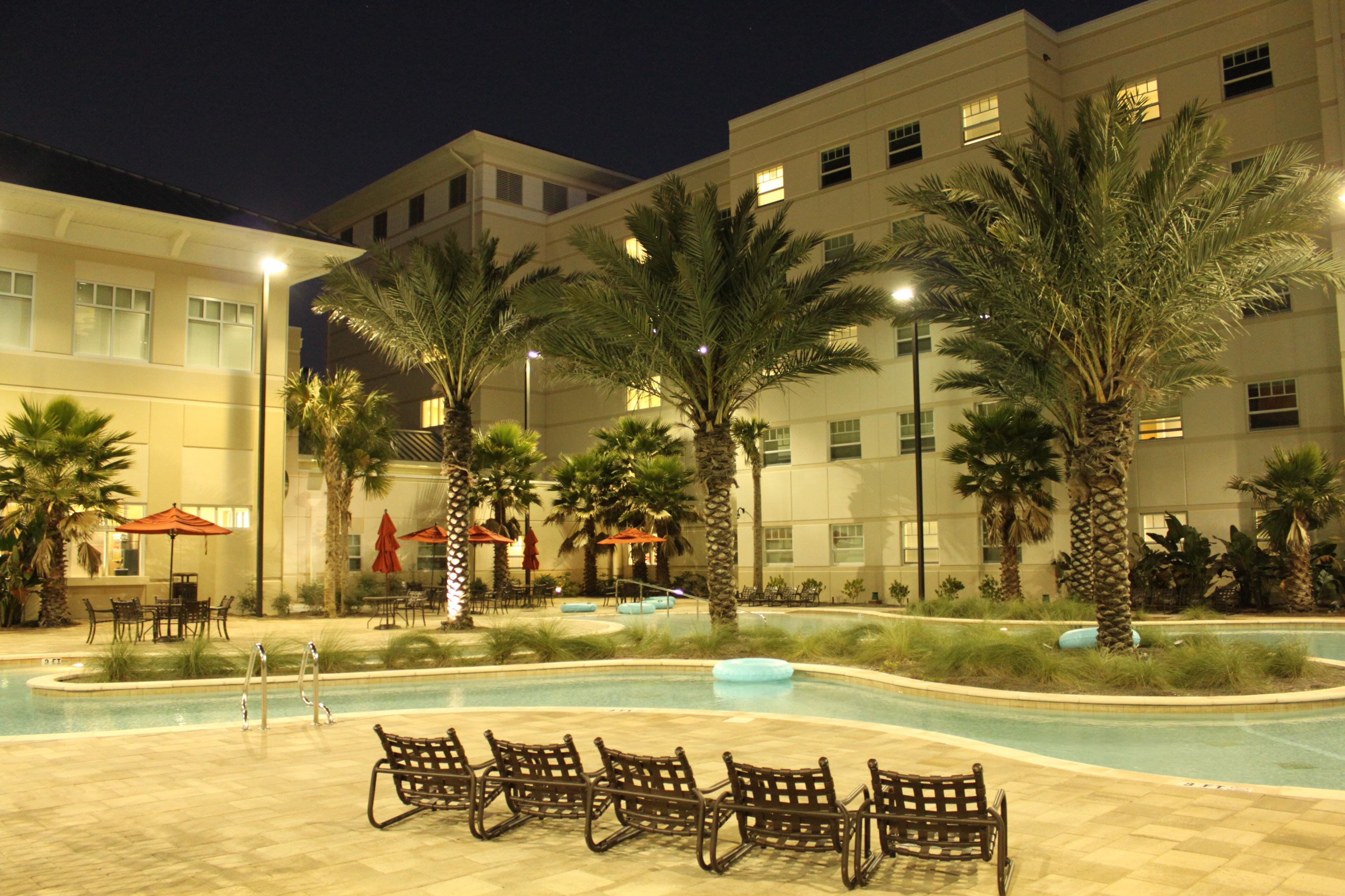 The lazy river of the Osprey Fountains dorm at the University of North Florida.